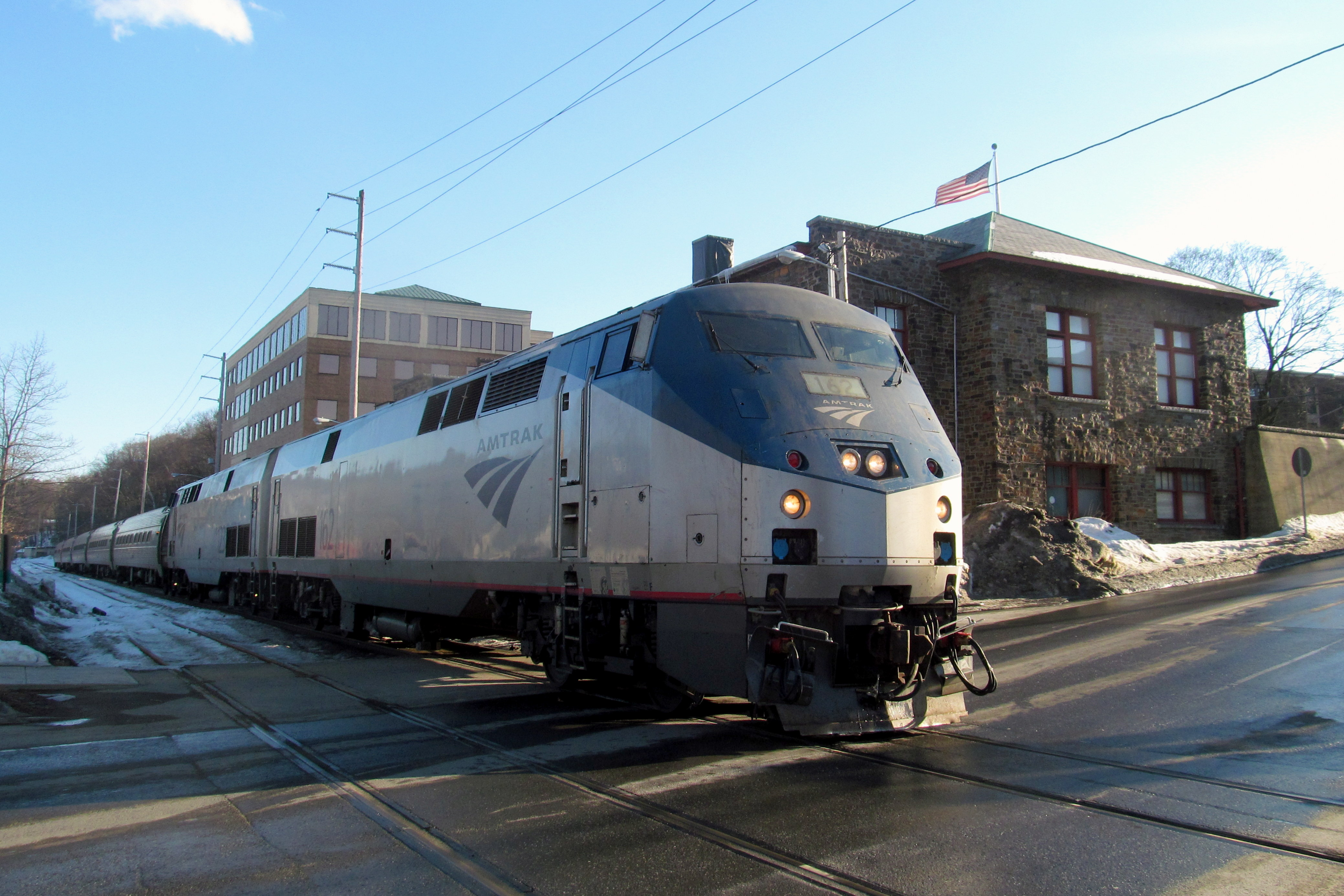 The northbound Vermonter at Brattleboro station in March 2015